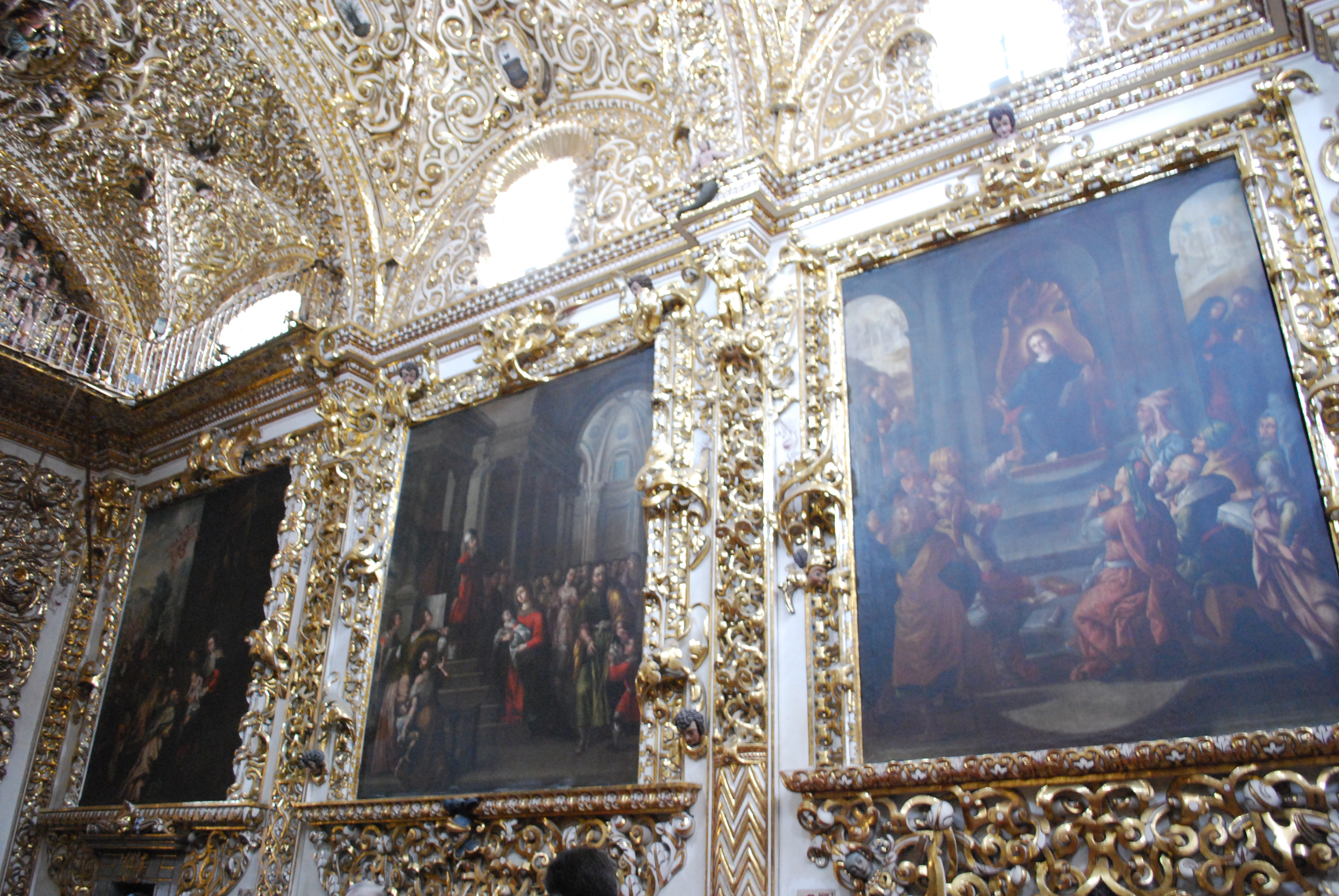 Side wall with paintings at the Capilla del Rosario in Puebla, Mexico